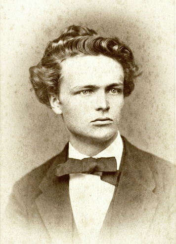 Photographic portrait of August Strindberg